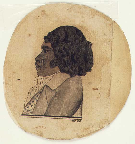 An undated portrait thought to depict Bennelong, signed "W.W." now in the Dixson Galleries of the State Library of New South Wales.